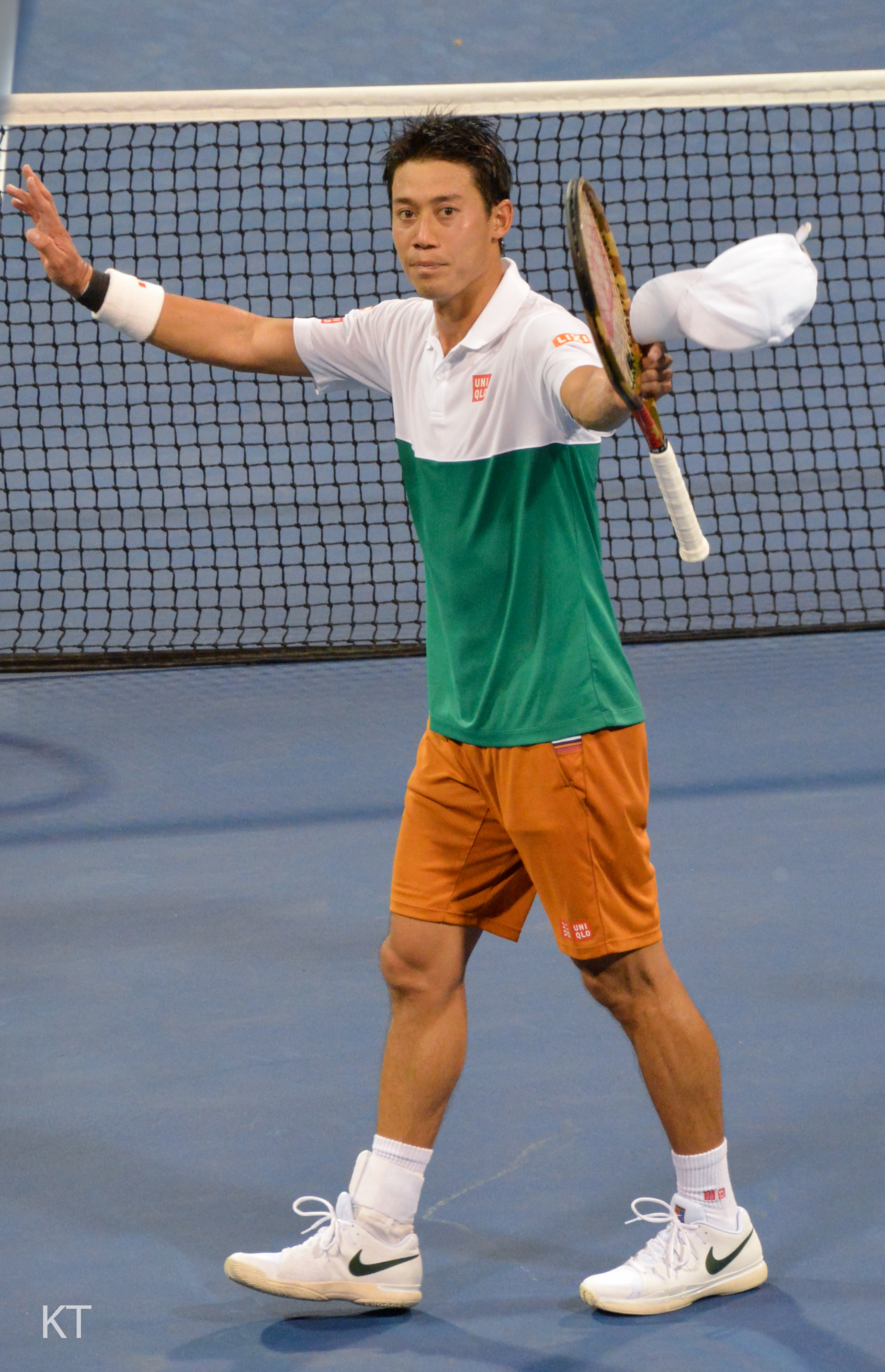 Kei Nishikori defeated Maximilian Marterer 6-2, 6-2, 6-3. Day 2 of US Open 2018.